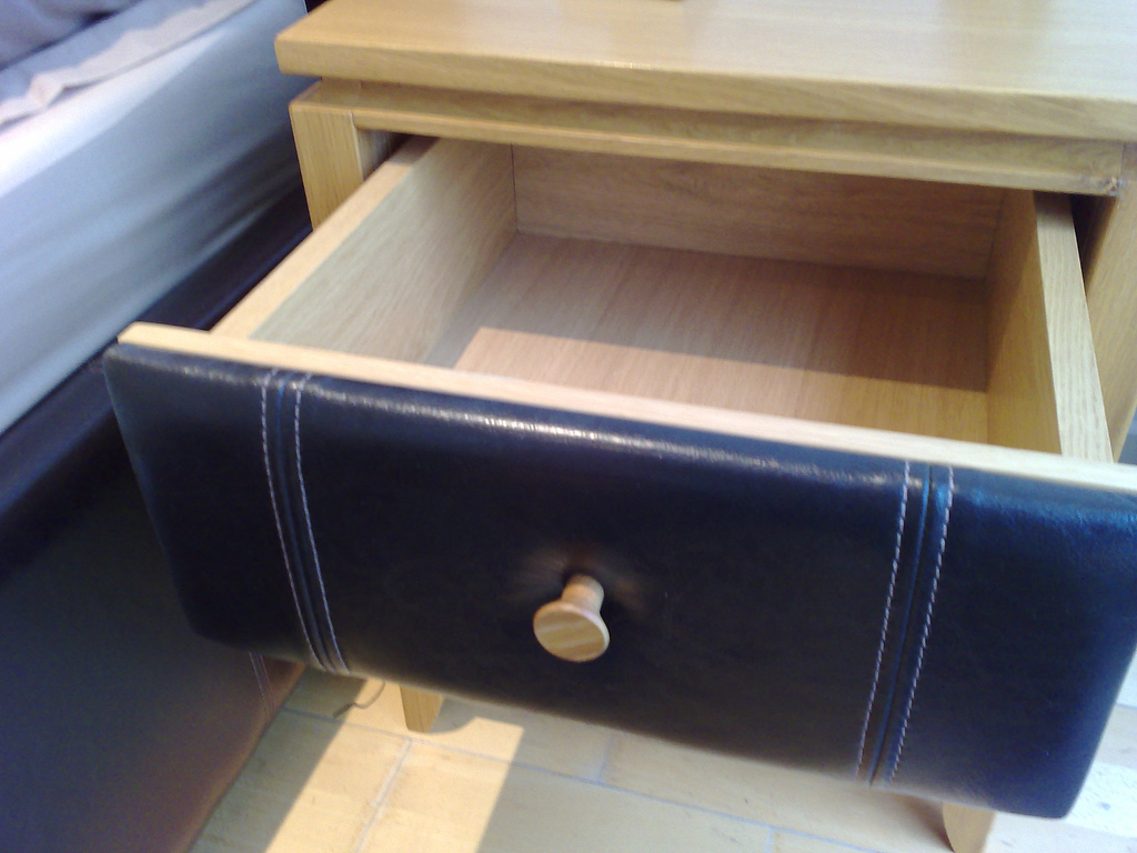 The side tables have convenient drawers and match the look of the bed with the same faux leather.